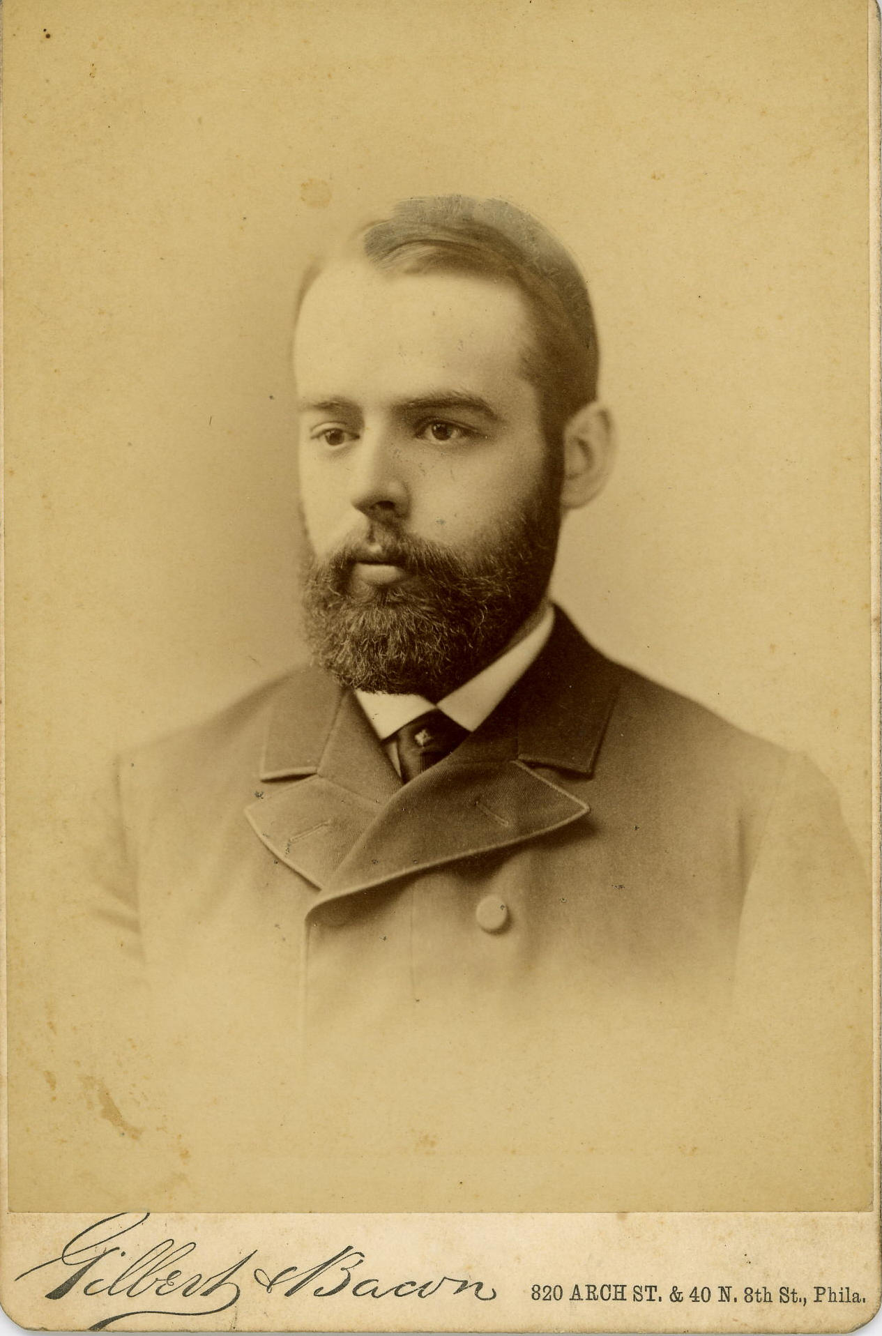 More than 100 year old photo